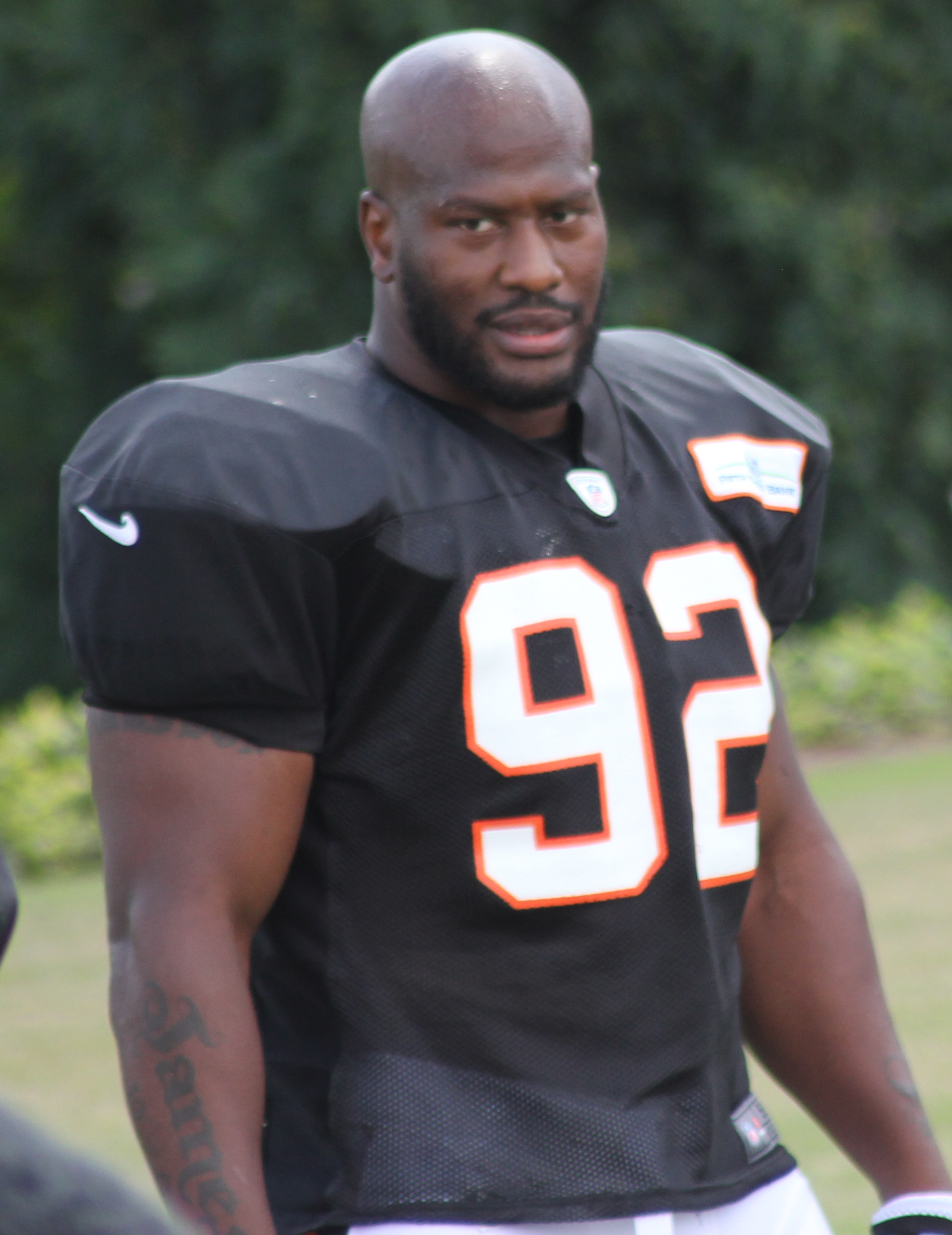 James Harrison in 2013